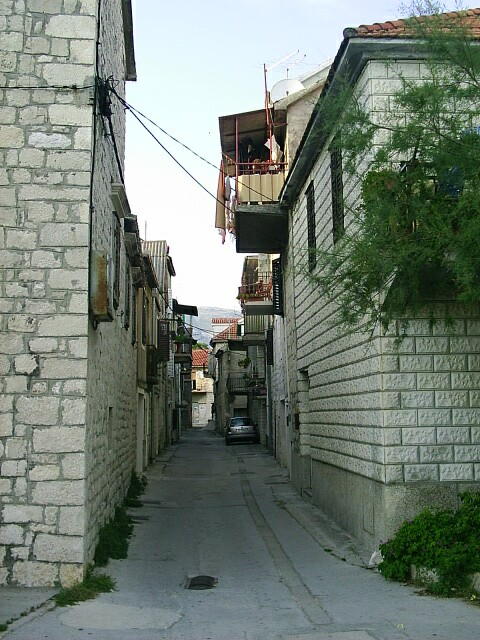 Town of Kaštel Novi, Croatia